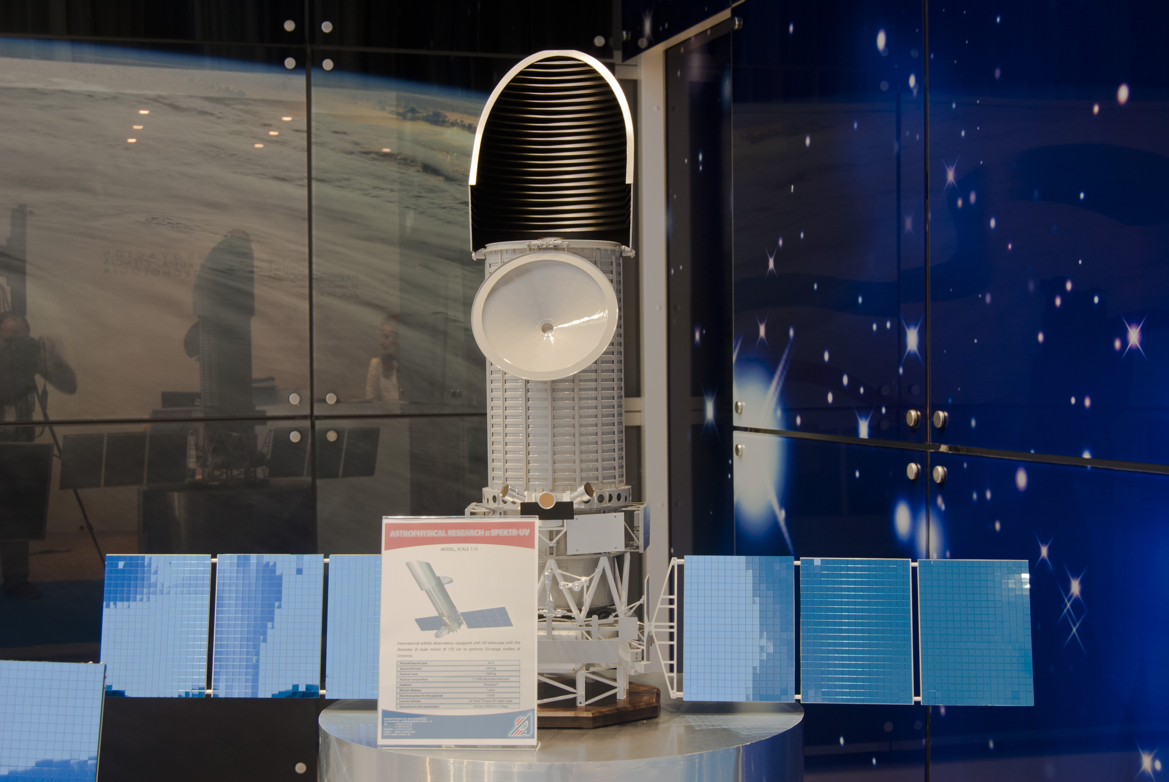 Model of World Space Observatory-Ultraviolet (WSO-UV) during "Semana de Espacio", in IFEMA, Madrid, 05.2011